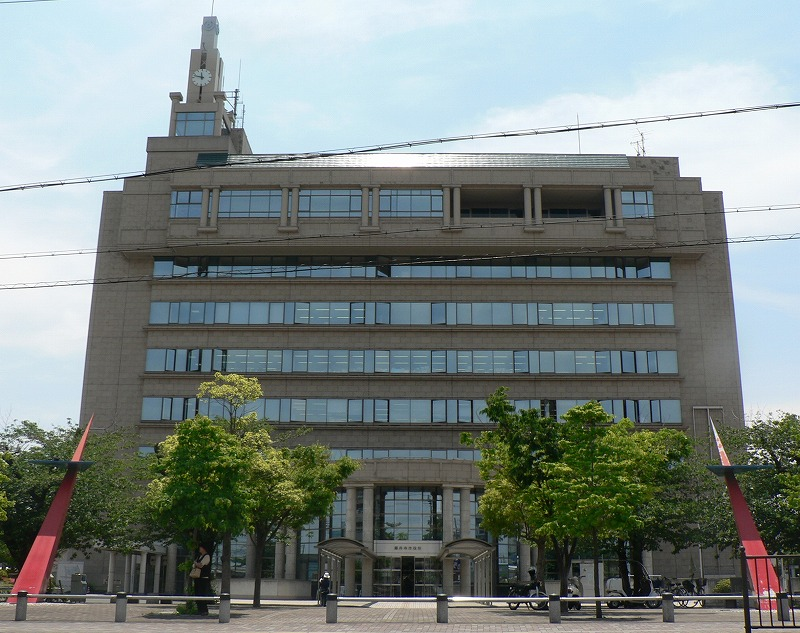 Fujiidera city office,Osaka,Japan （藤井寺市役所）